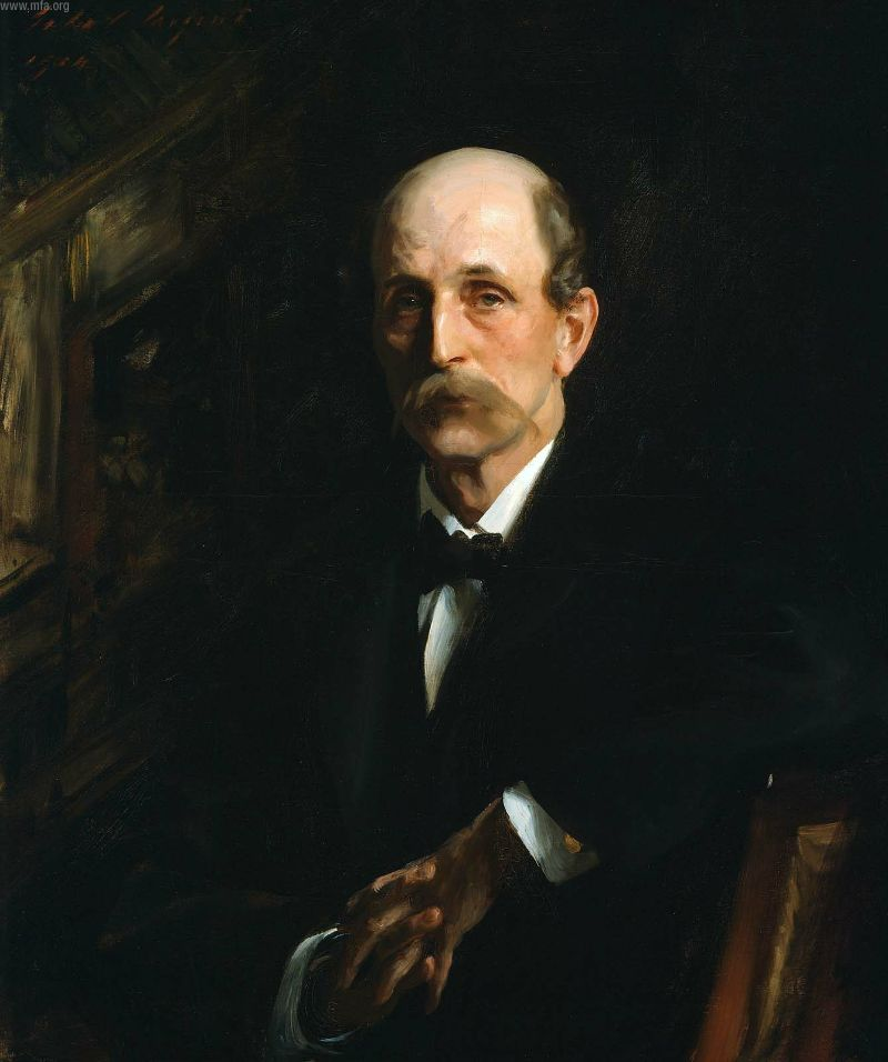 General Charles J. Paine John Singer Sargent -- American painter 1904 Museum of Fine Arts, Boston Oil on canvas 86.68 x 72.71 cm (34 1/8 x 28 5/8 in.) Gift of the heirs of Charles J. Paine 54.1410 Jpg: MFA